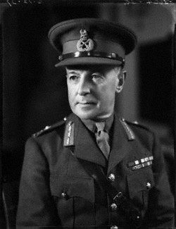 Portrait of General Sir Frederick Pile.